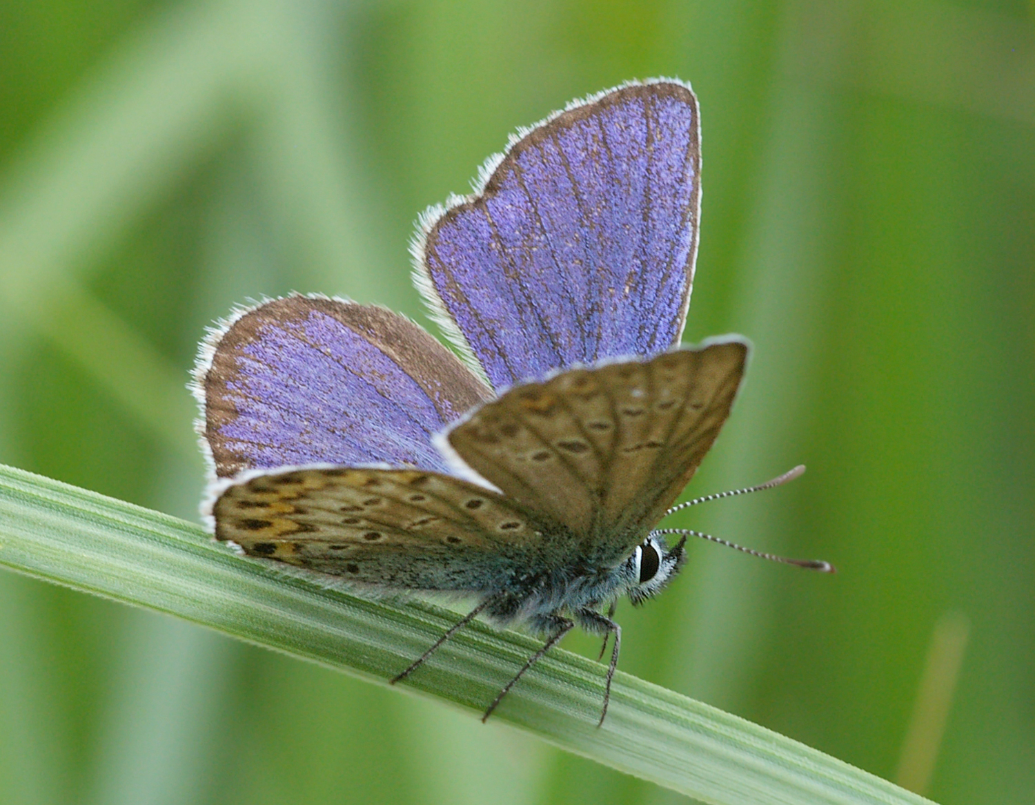 Male specimen of the butterfly Silver-studded Blue, Plebejus argus. The perspective allows a view to both sides of the wings, which is important for the species' determination. The animal's habitat is a sandy, heathy ground.